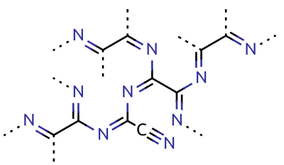 Proposed chemical structure of paracyanogen